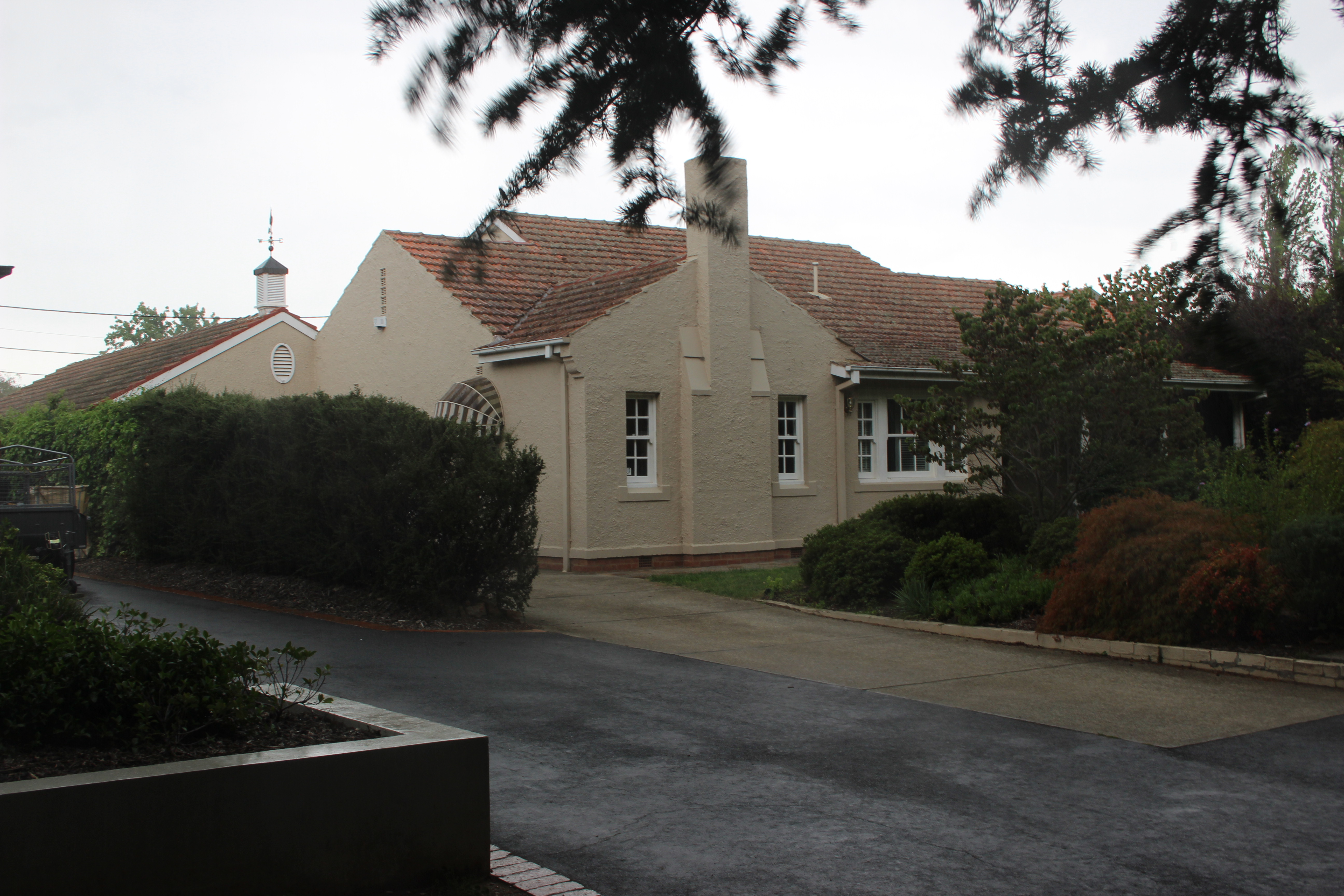 Telopea Park West, Barton, ACT